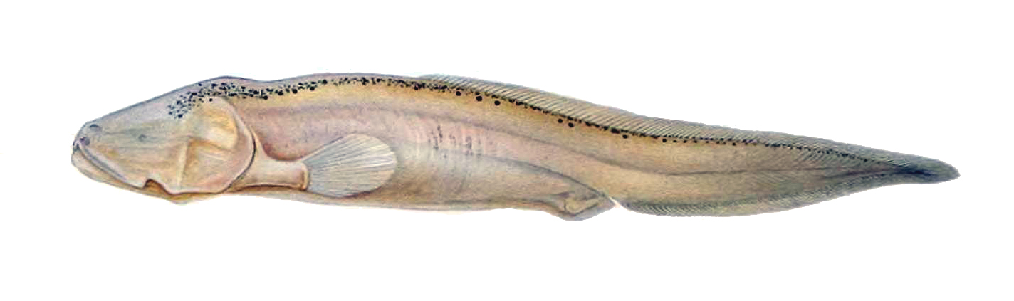 Leucochlamys cryptopthalmus = Sciadonus cryptophthalmus (Zugmayer, 1911)